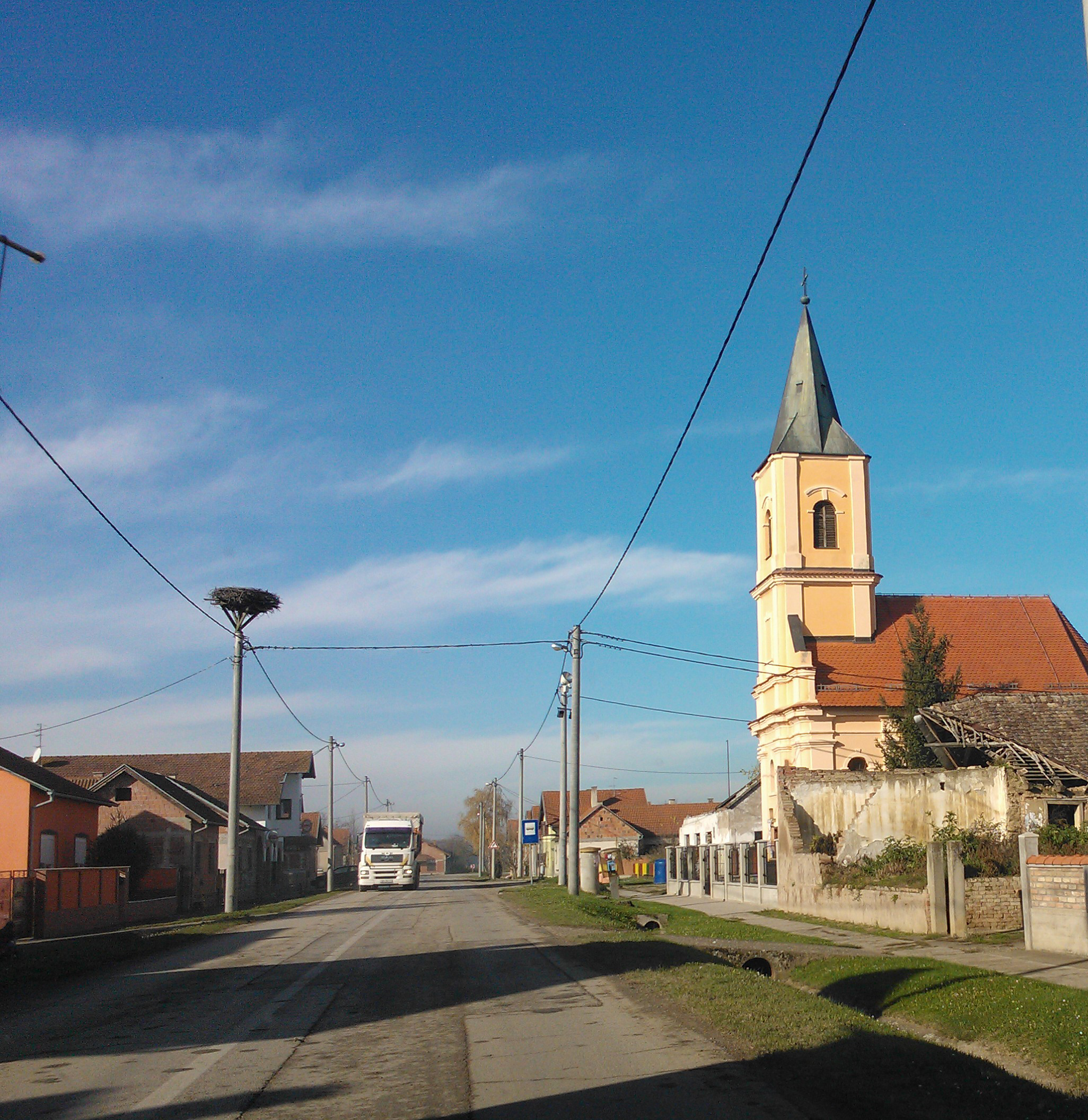 Apševci, Vukovar-Syrmia County, Croatia. Српски (ћирилица): Апшевци, вуковарско-сремска жупанија. Хрватска.